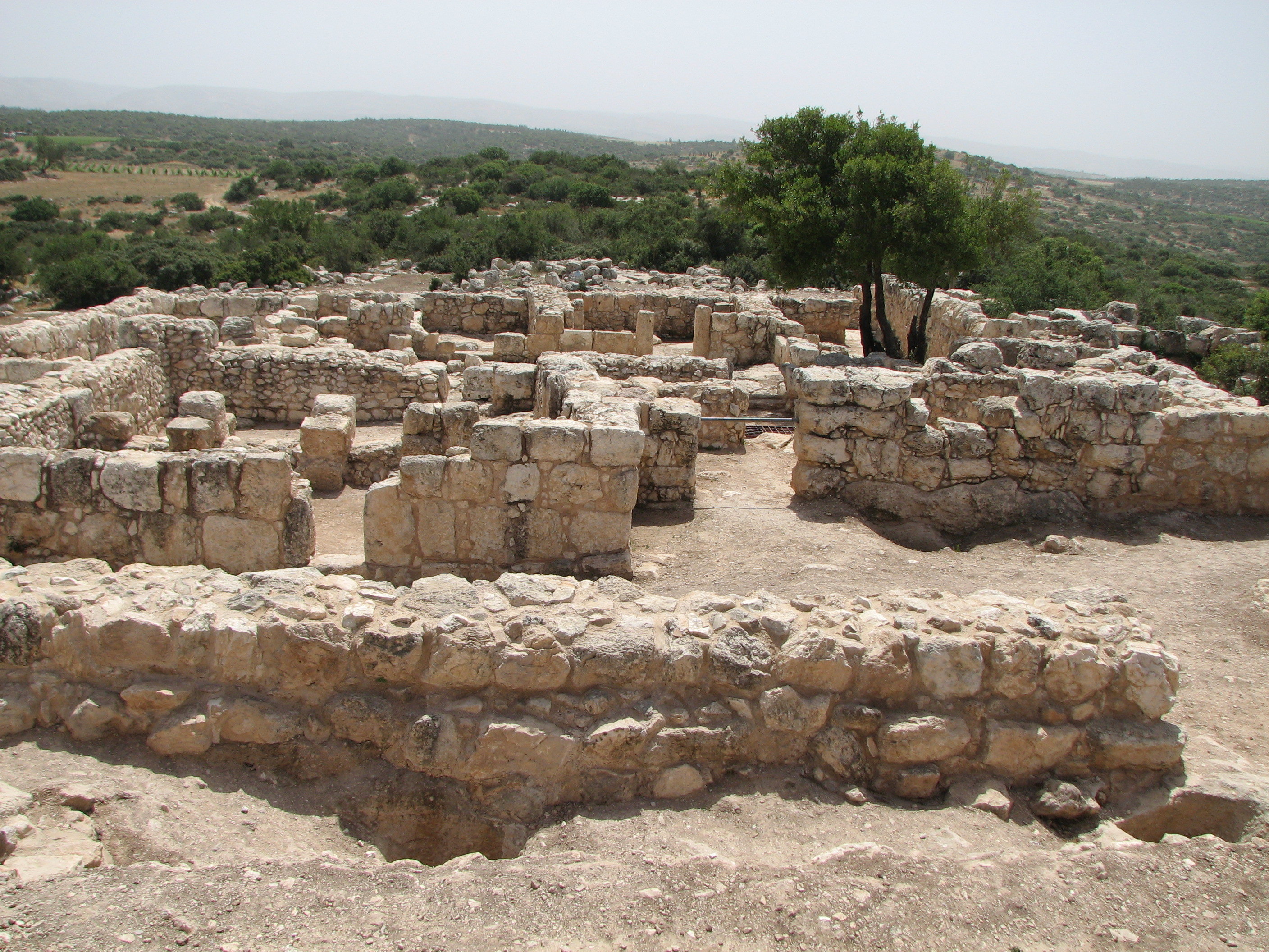 Archeological sites of Israel